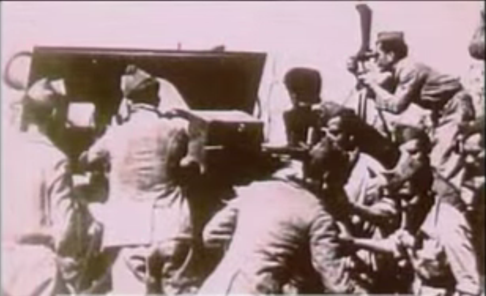 Ukrainian interbrigade company Taras Shevchenko